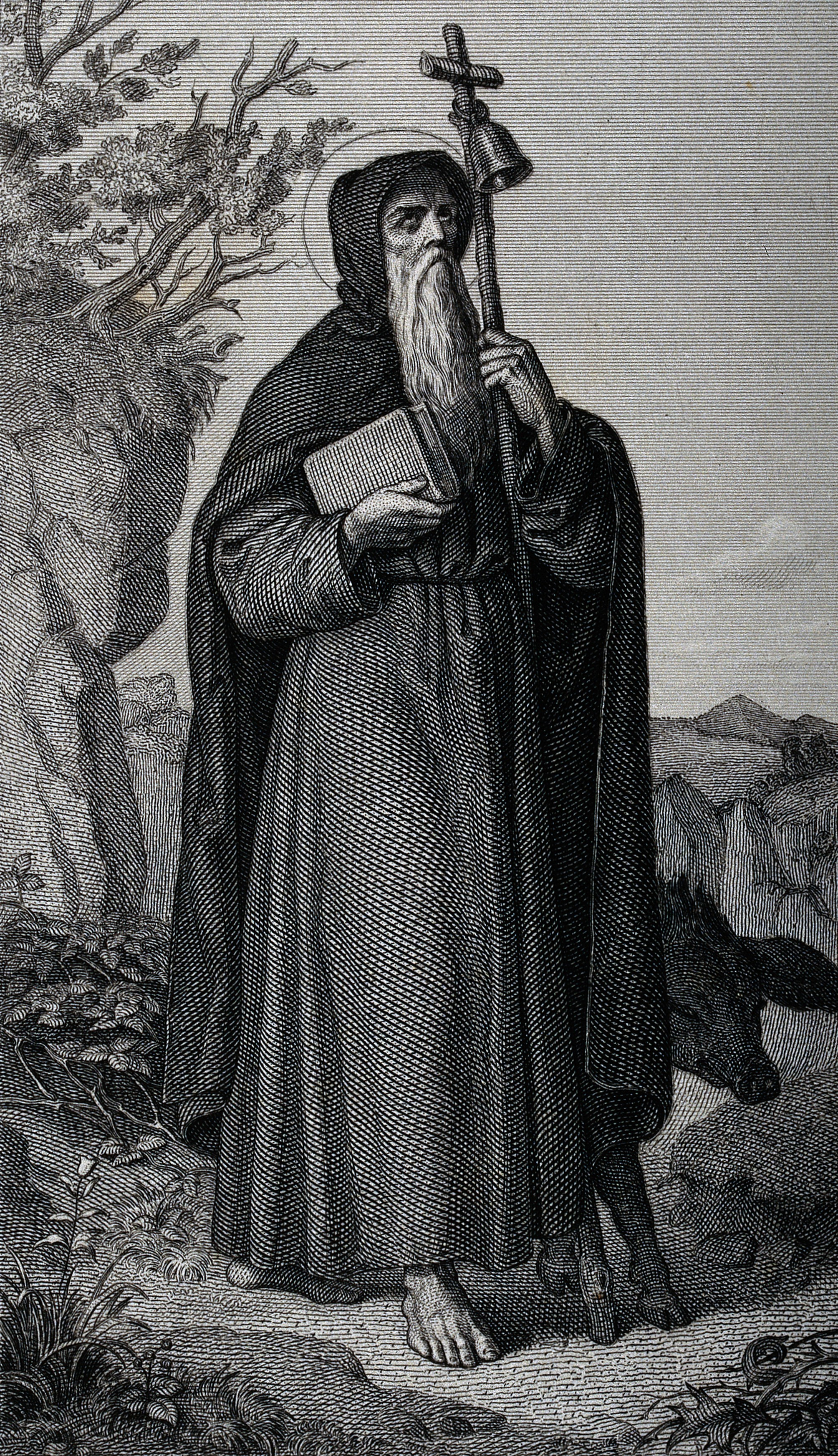 Saint Antony. Steel engraving by Rittinghaus after C. Clafen. Iconographic Collections